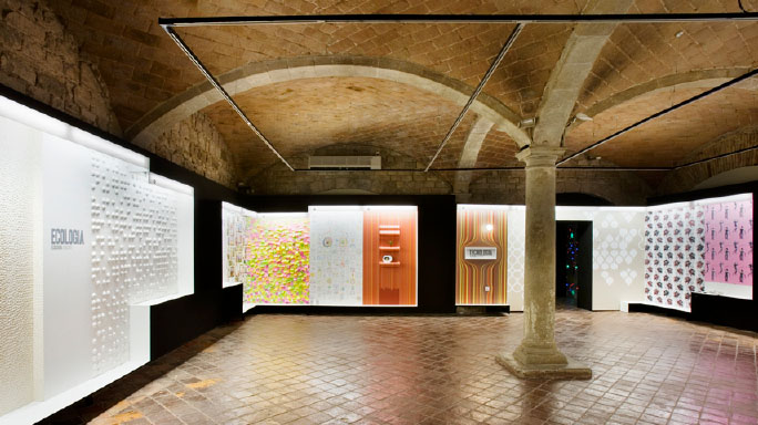 Material and rooms of the Wallpaper exhibit at Disseny Hub Barcelona